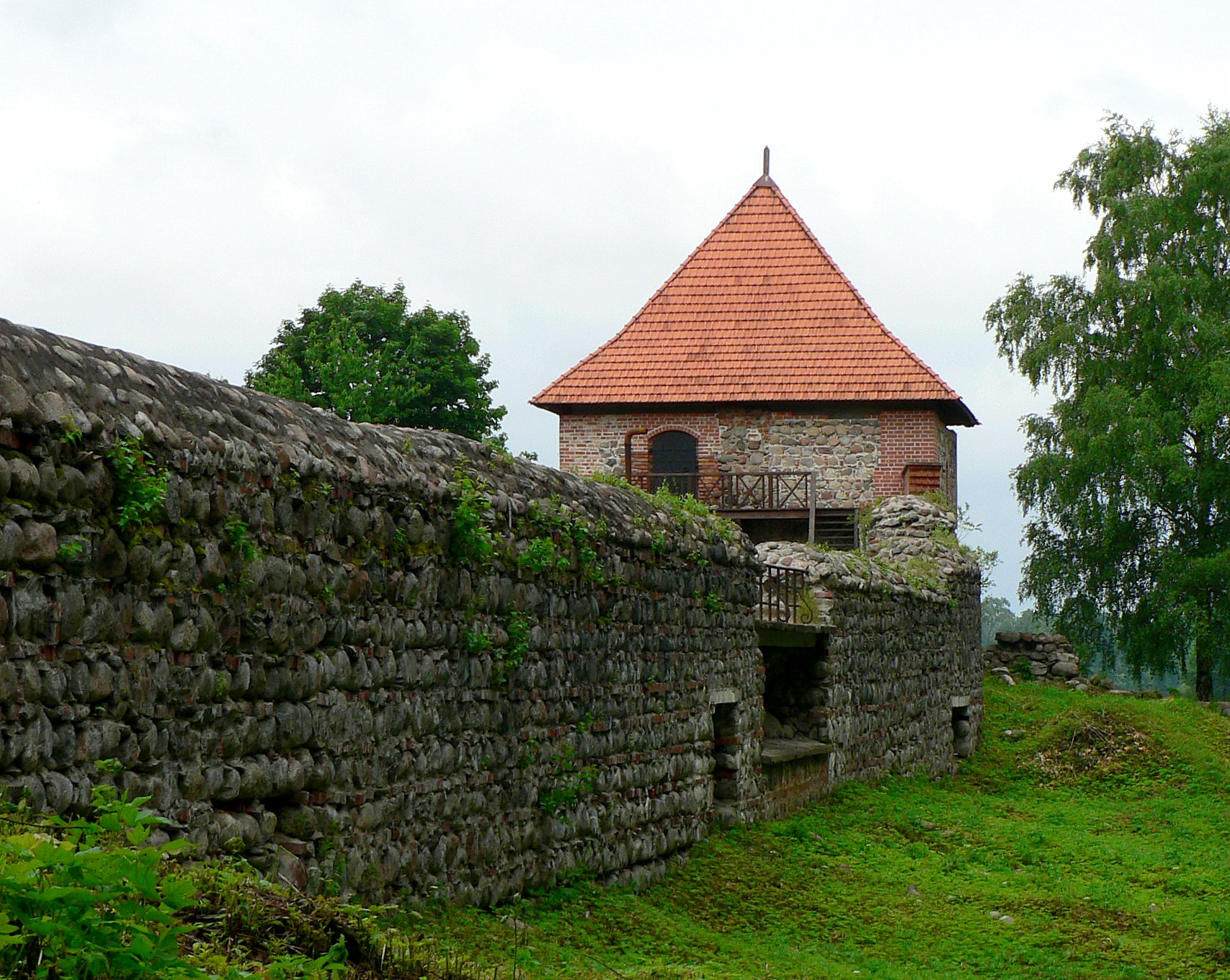 The wall of the old castle on peninsula in Trakai, Lithuania.